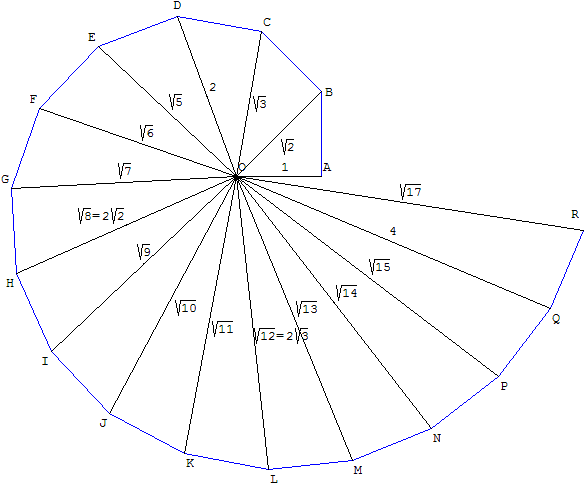 spiral of Theodorus of Cyrene